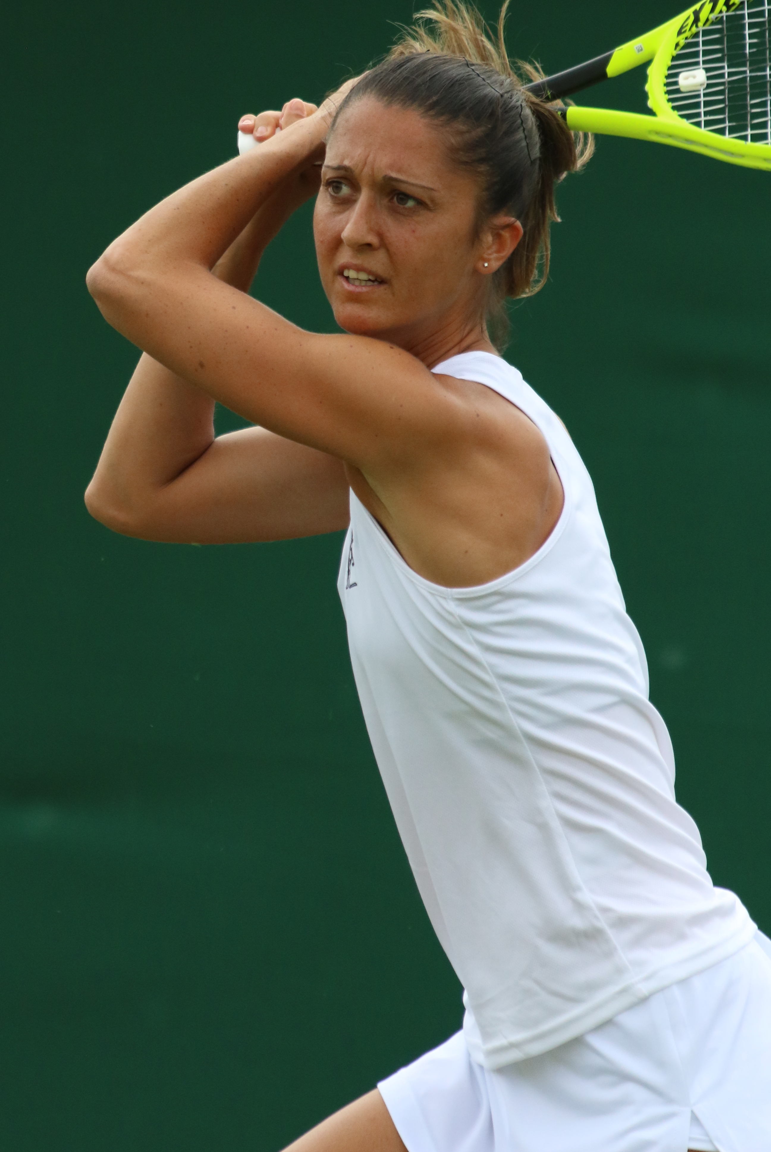 2019 Wimbledon Qualifying Tournament.